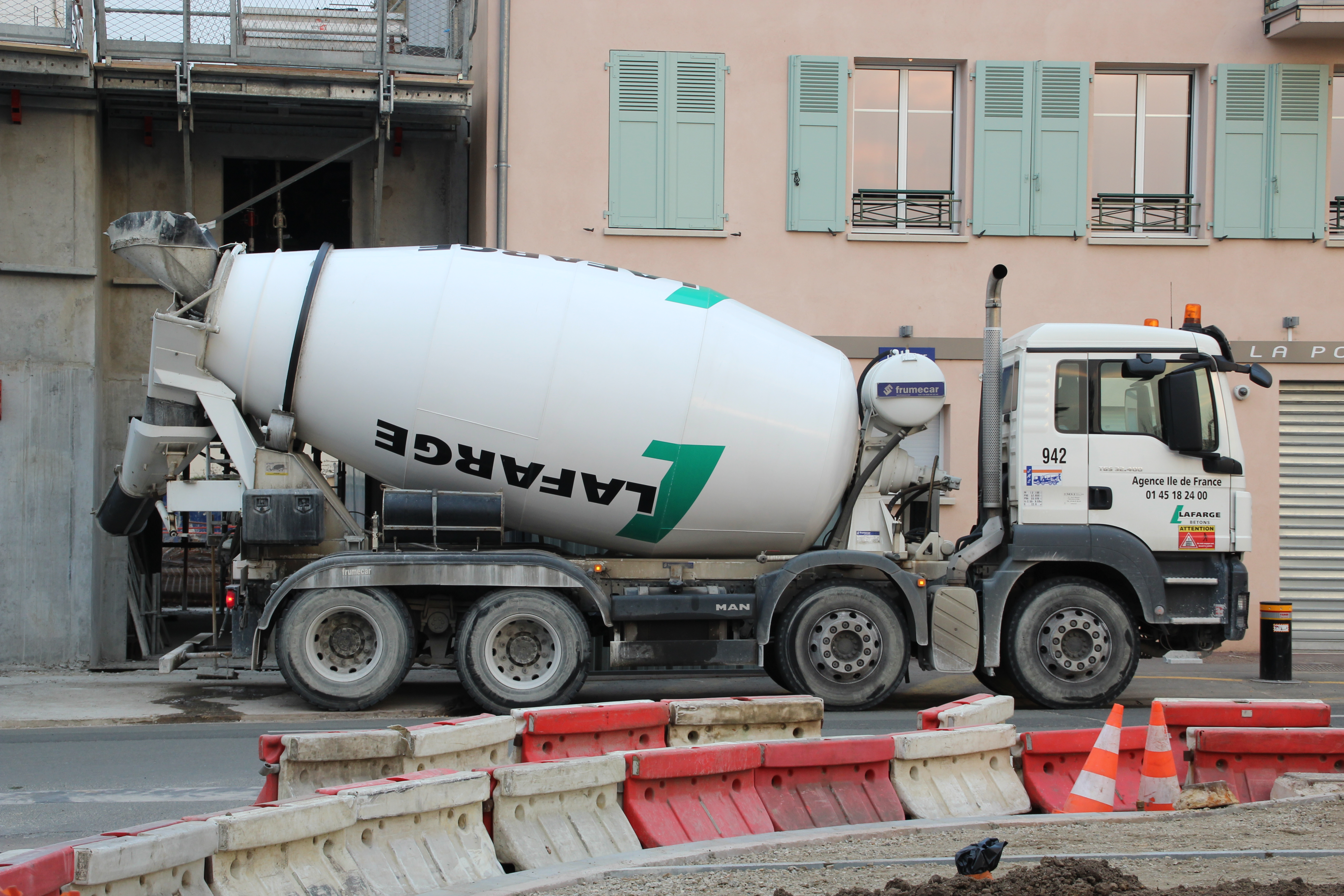 MAN TGS 32.400 truck in front of the construction site of the old post office on the République street in Saint Rémy lès Chevreuse, France.